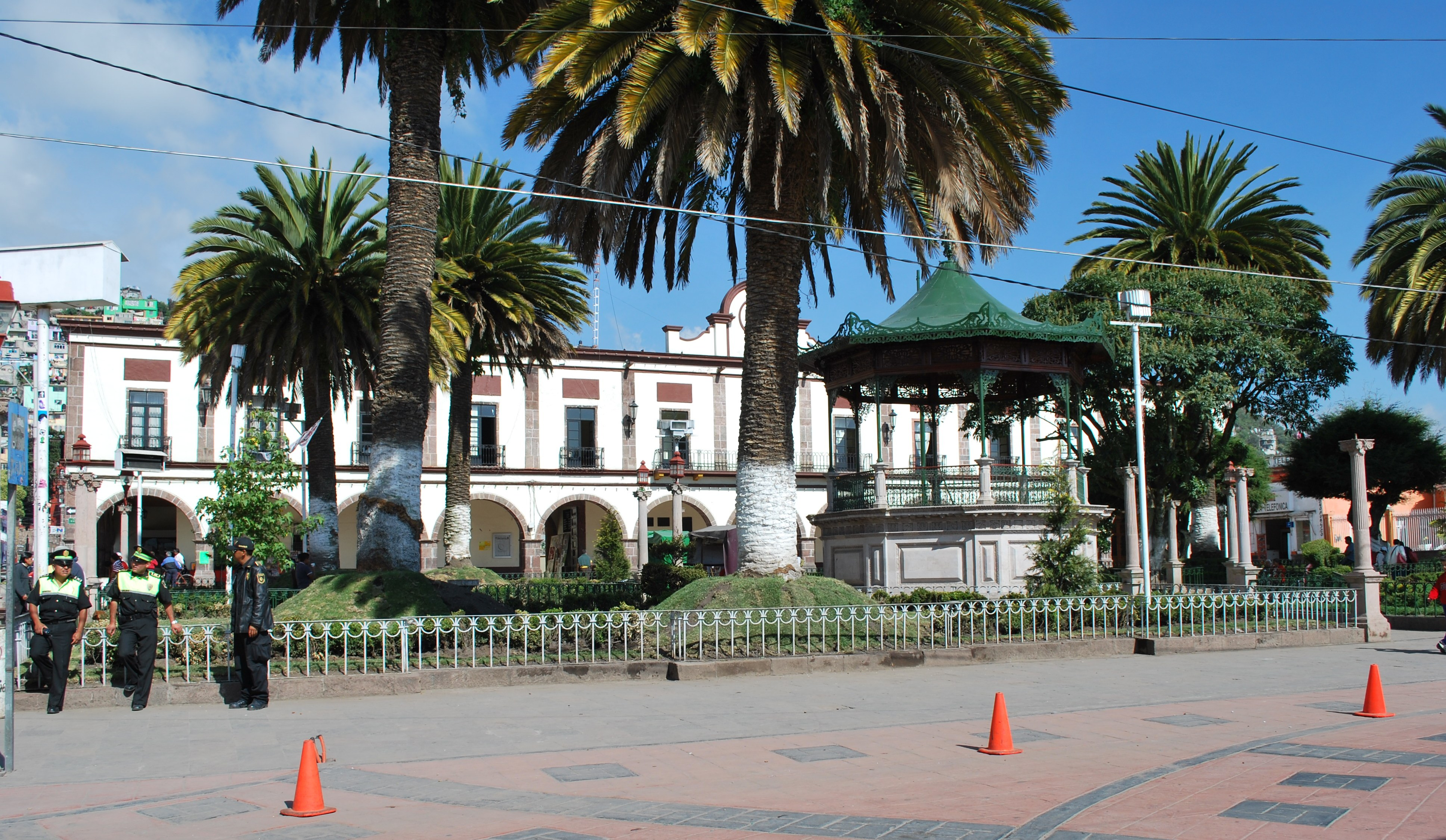 Municipal palace and main plaza of Tenango del Valle, Mexico State